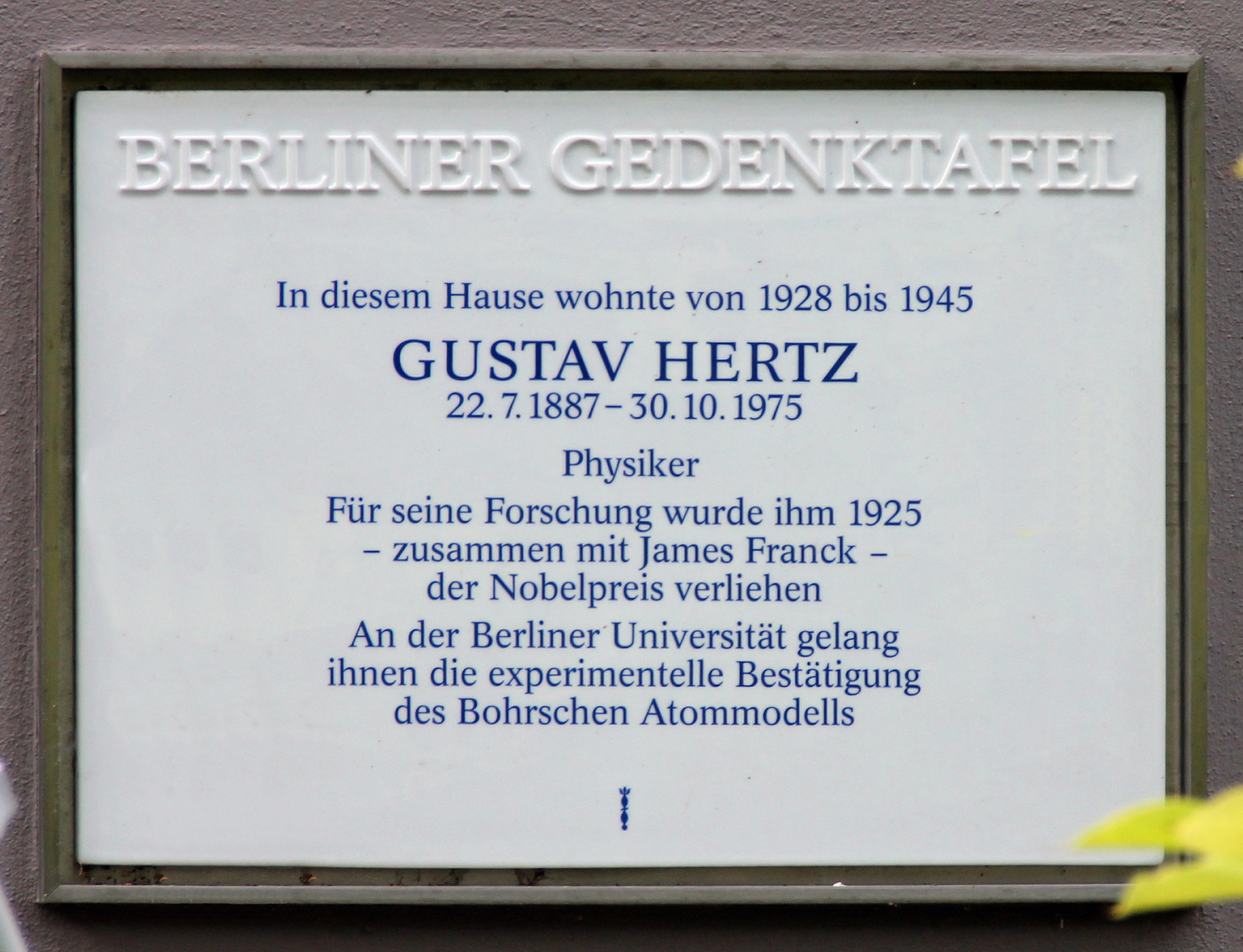 Berlin memorial plaque, Gustav Hertz, Fabeckstraße 11, Berlin-Dahlem, Germany